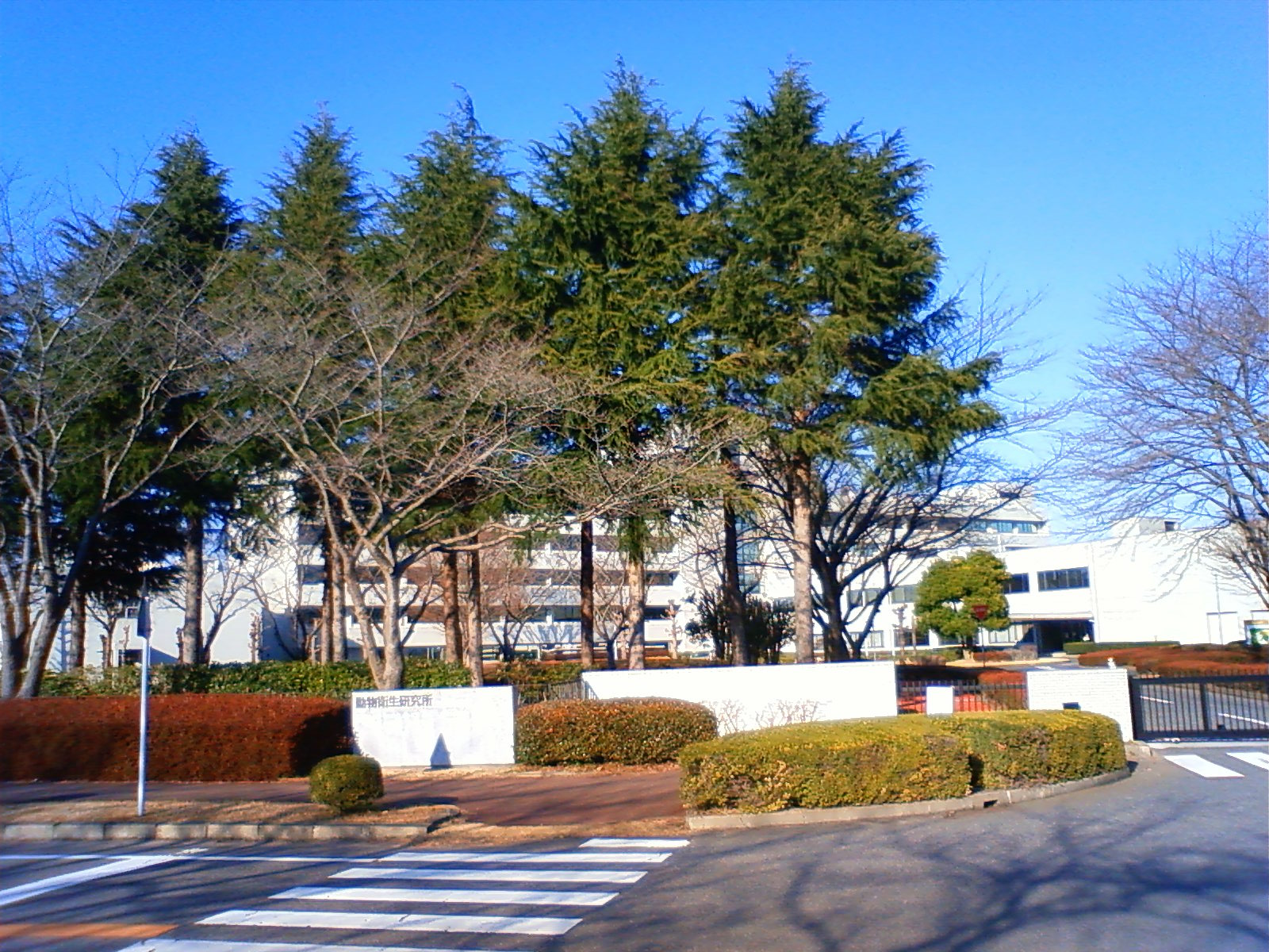 This is the building of National Institute of Animal Health in Japan.